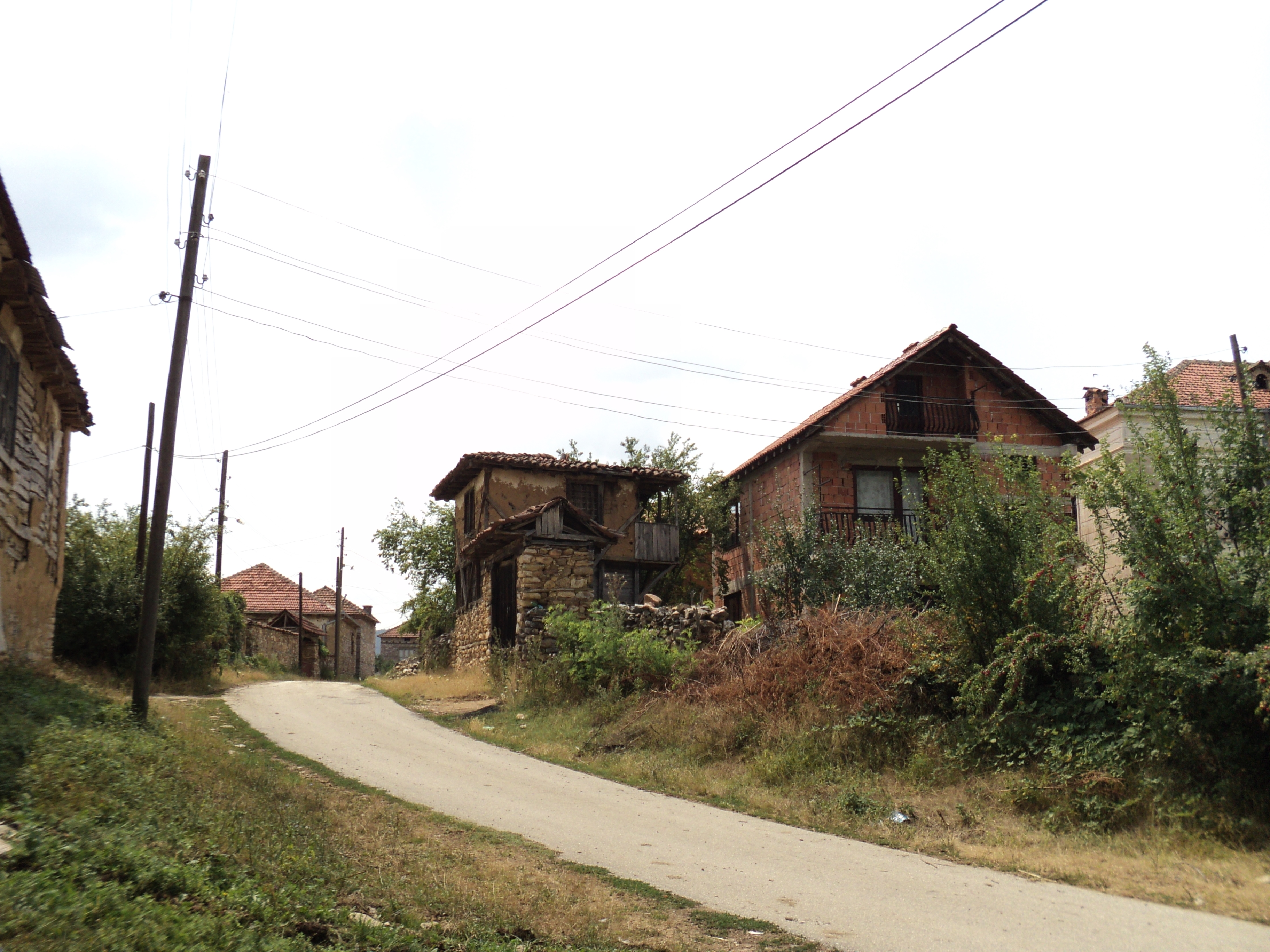 View at the village of Miokazi.